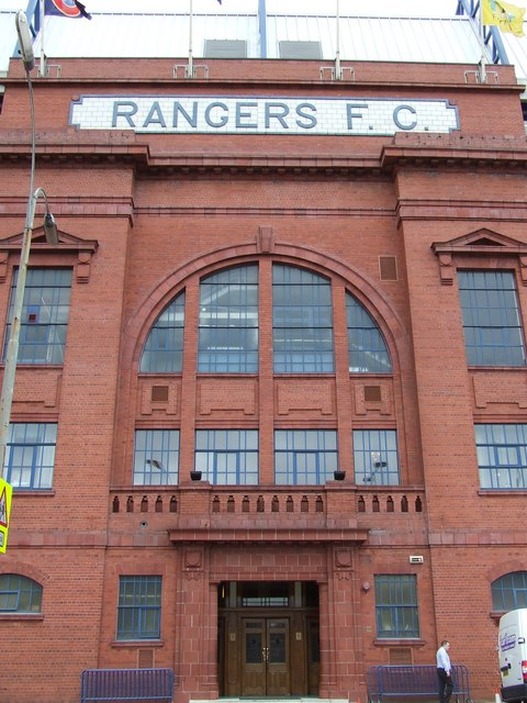 Façade of the Ibrox Stadium, Glasgow, Scotland